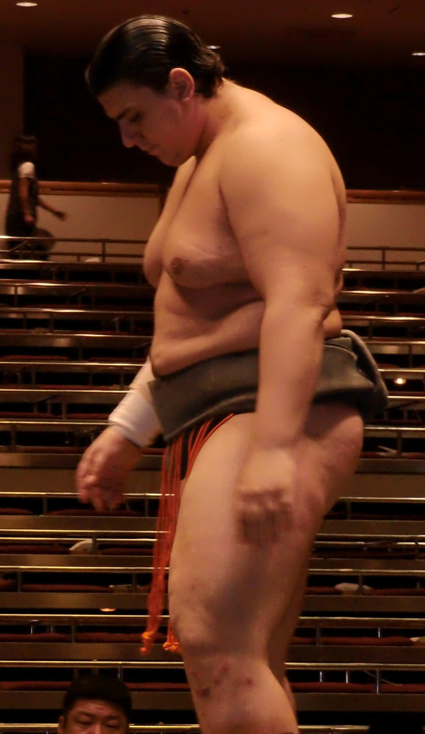 taken at 2009 Sept tournament